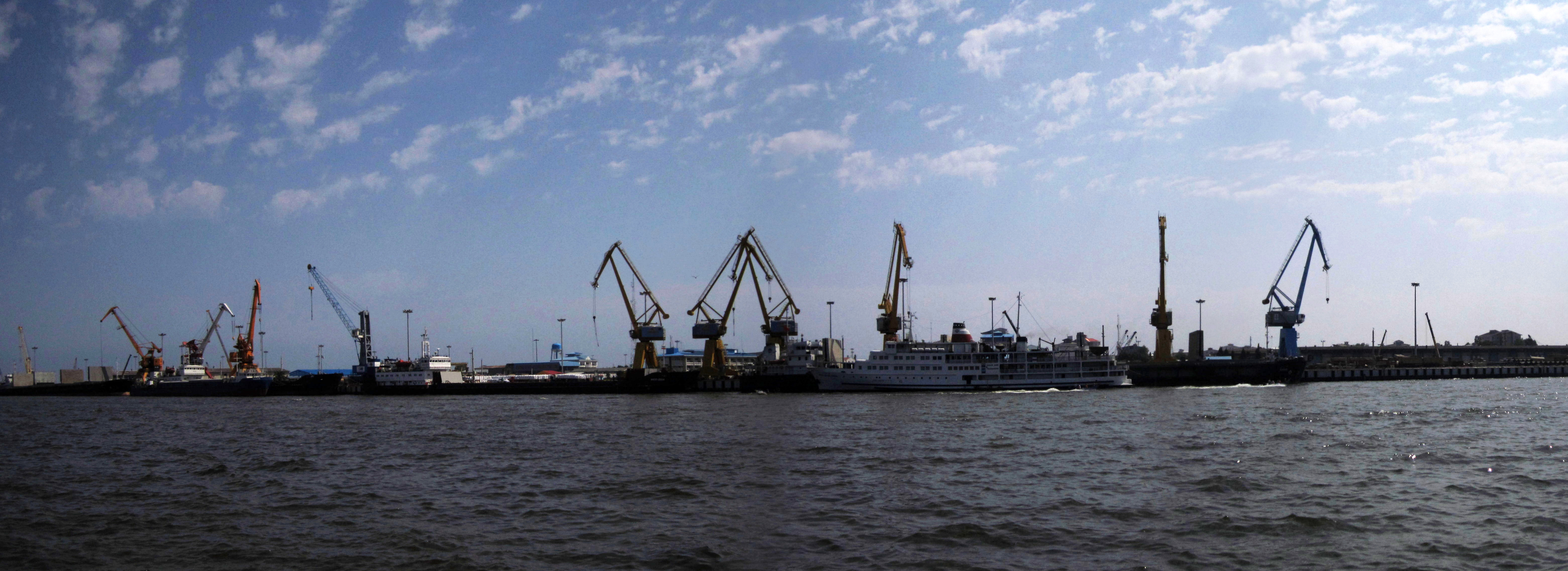 سراسرنمایی از بندر انزلی